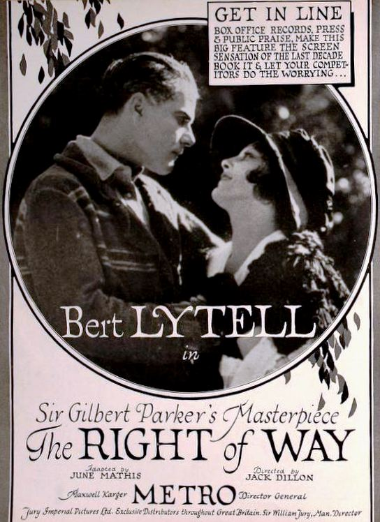 Ad for the American film The Right of Way (1920) with Bert Lytell and Leatrice Joy, on page 2934 of the March 27, 1920 Motion Picture News.